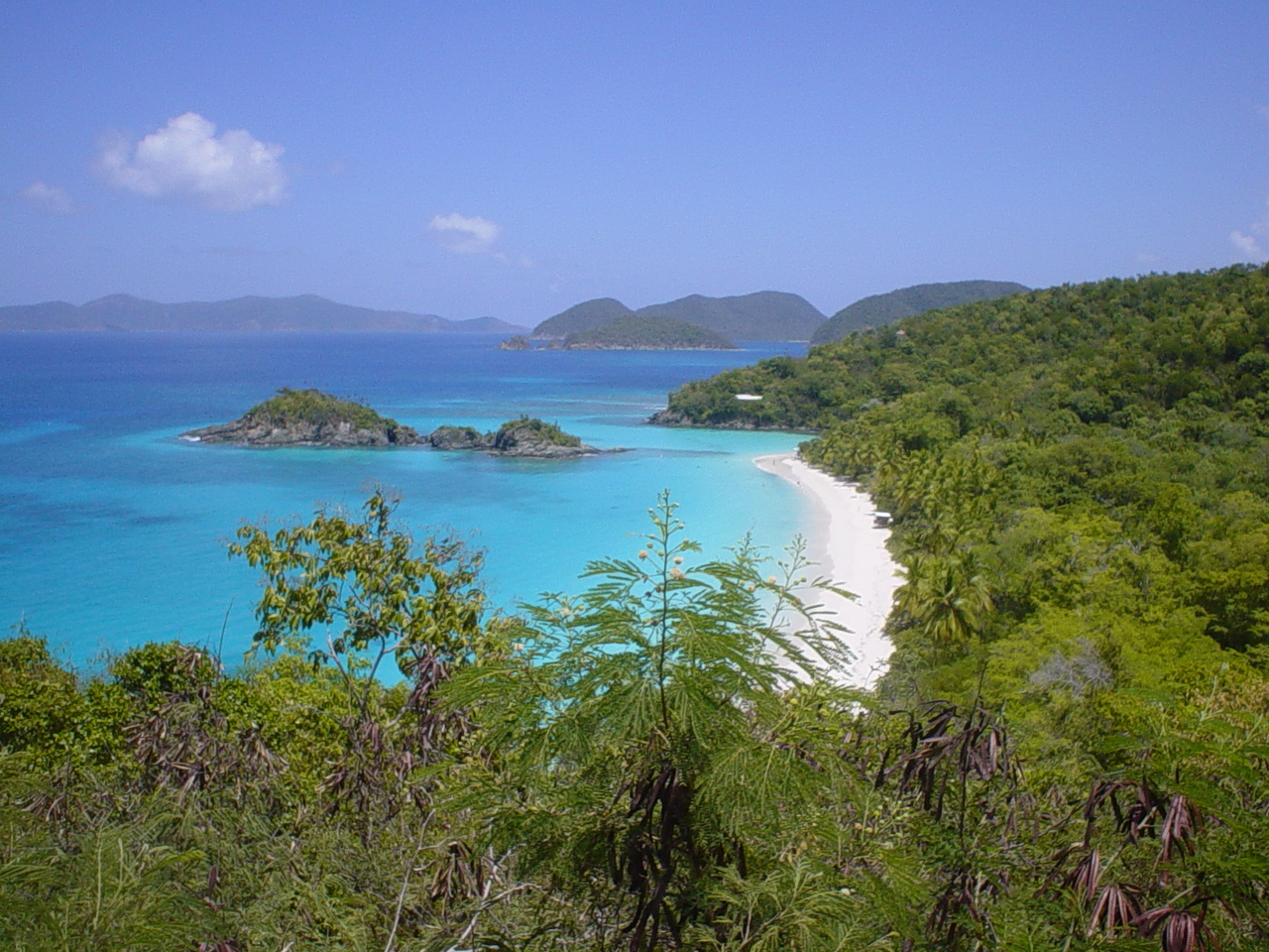 This is a picture of Trunk Bay in St. John. I took it myself in 2003.